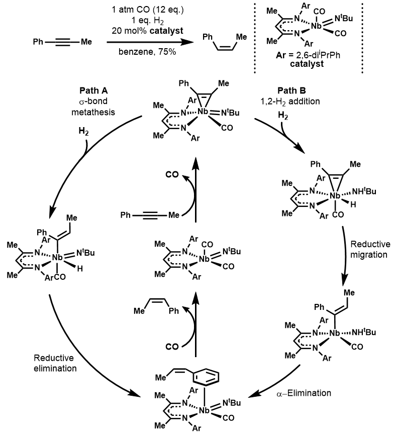 NbIII Semihydrogenation catalytic cycle